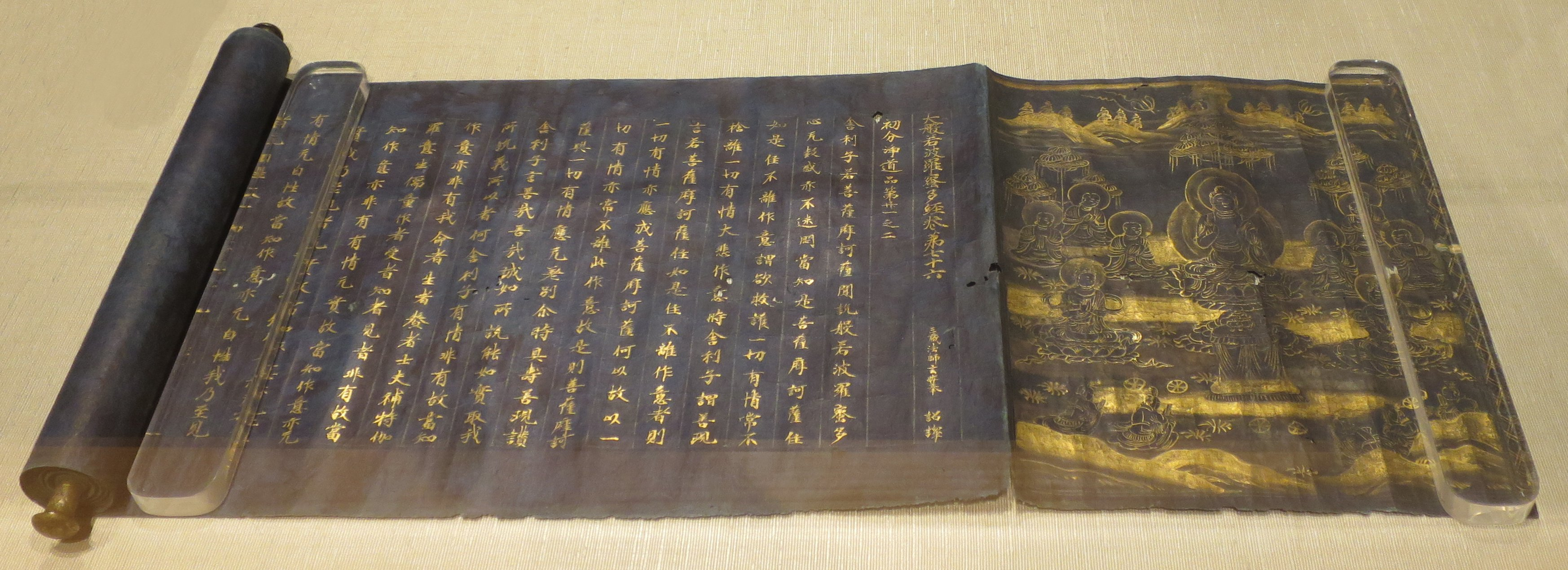 Illustrated frontispiece to the Mahaprajnaparamita Sutra (Great Perfection of Wisdom Sutra), Japan, Heian period, late 12th century, handscroll, gold on blue paper, Honolulu Museum of Art, accessions 3337.1, 3338.1